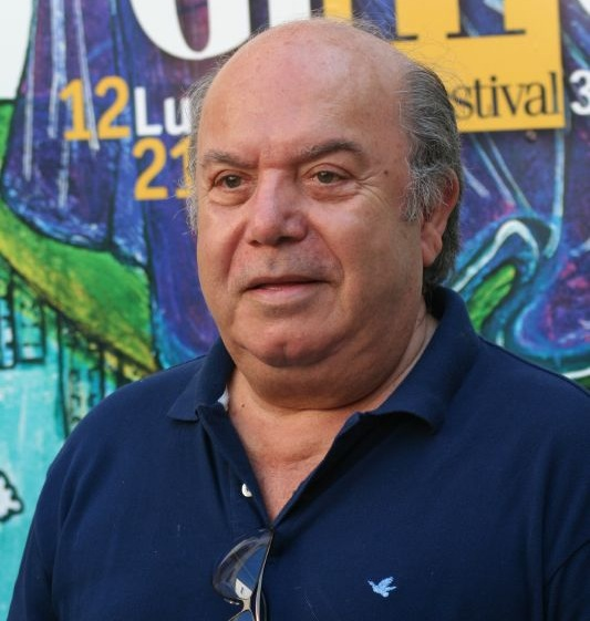 Lino Banfi